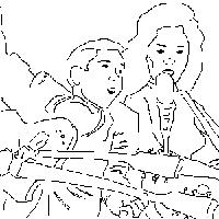 Collins Kids